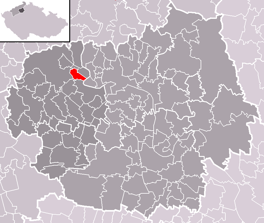 Location of Lhotka nad Labem municipality within Litoměřice District and administrative area of Lovosice as a Municipality with Extended Competence.